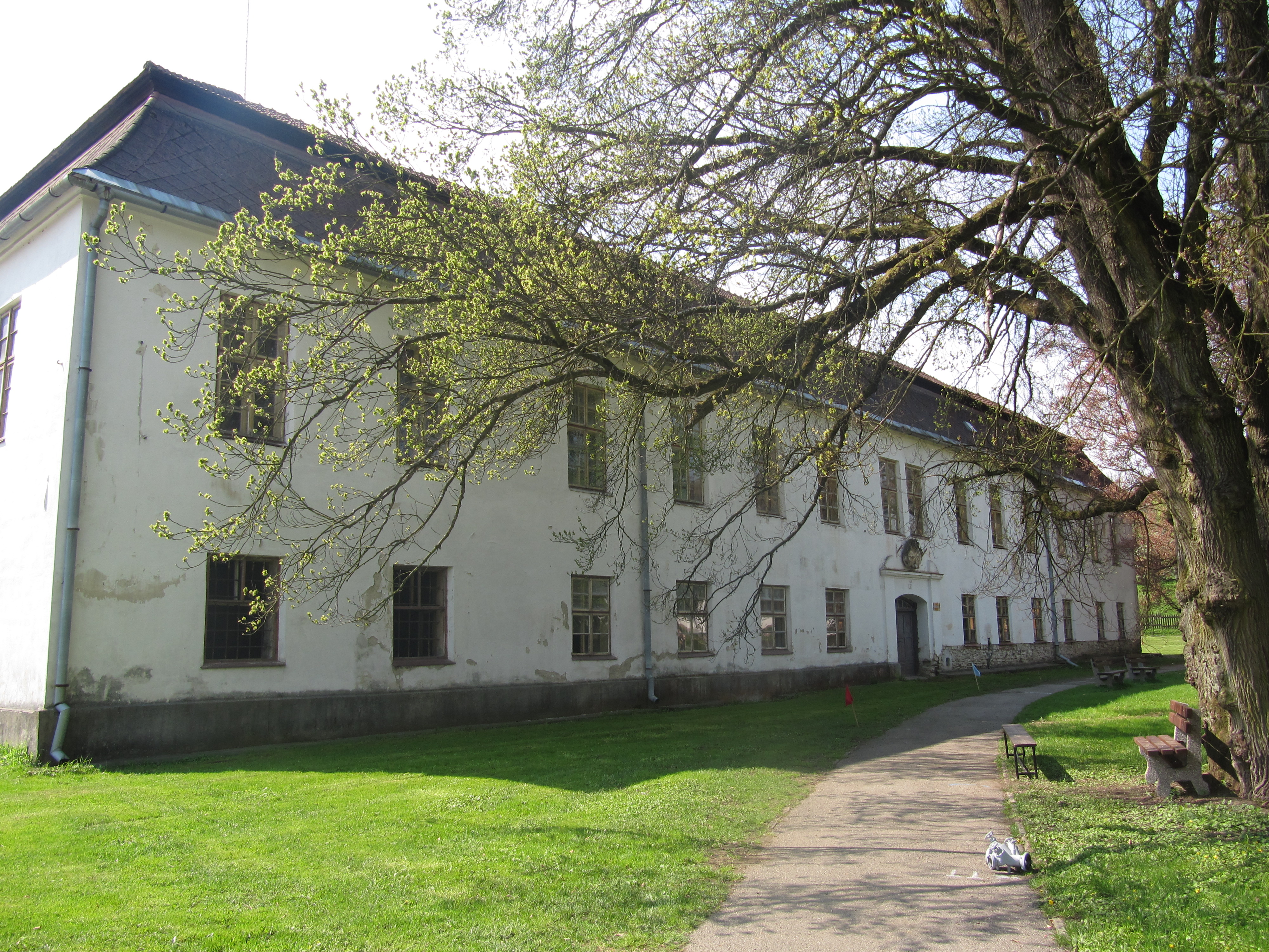 Liptál in Vsetín District, Czech Republic. Castle.